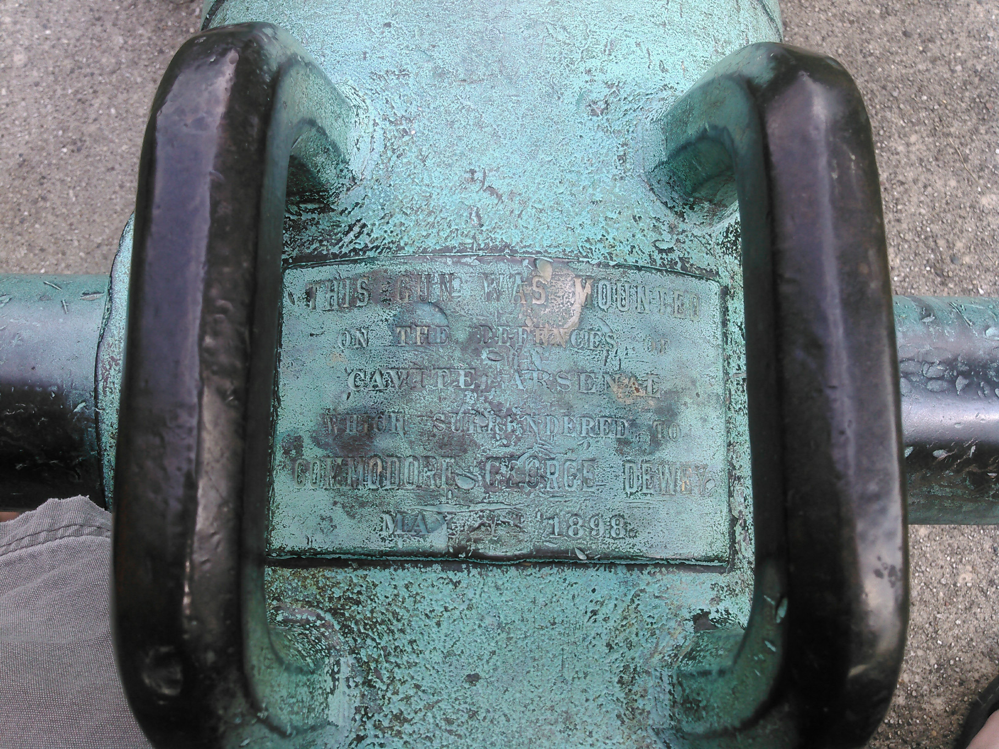 Photograph of the placard on the cannon located at Village Green Park, Winnetka, Illinois, USA